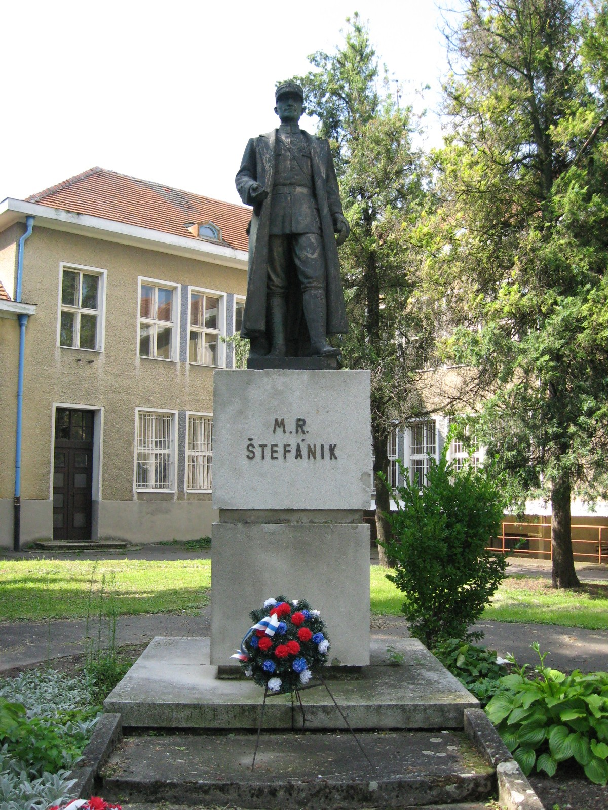 The statue of general Milan Rastislav Štefánik in Šurany, Slovakia.